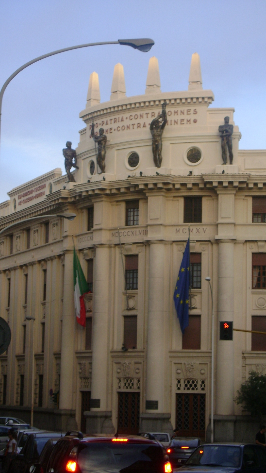 fascist architecture, Cagliari